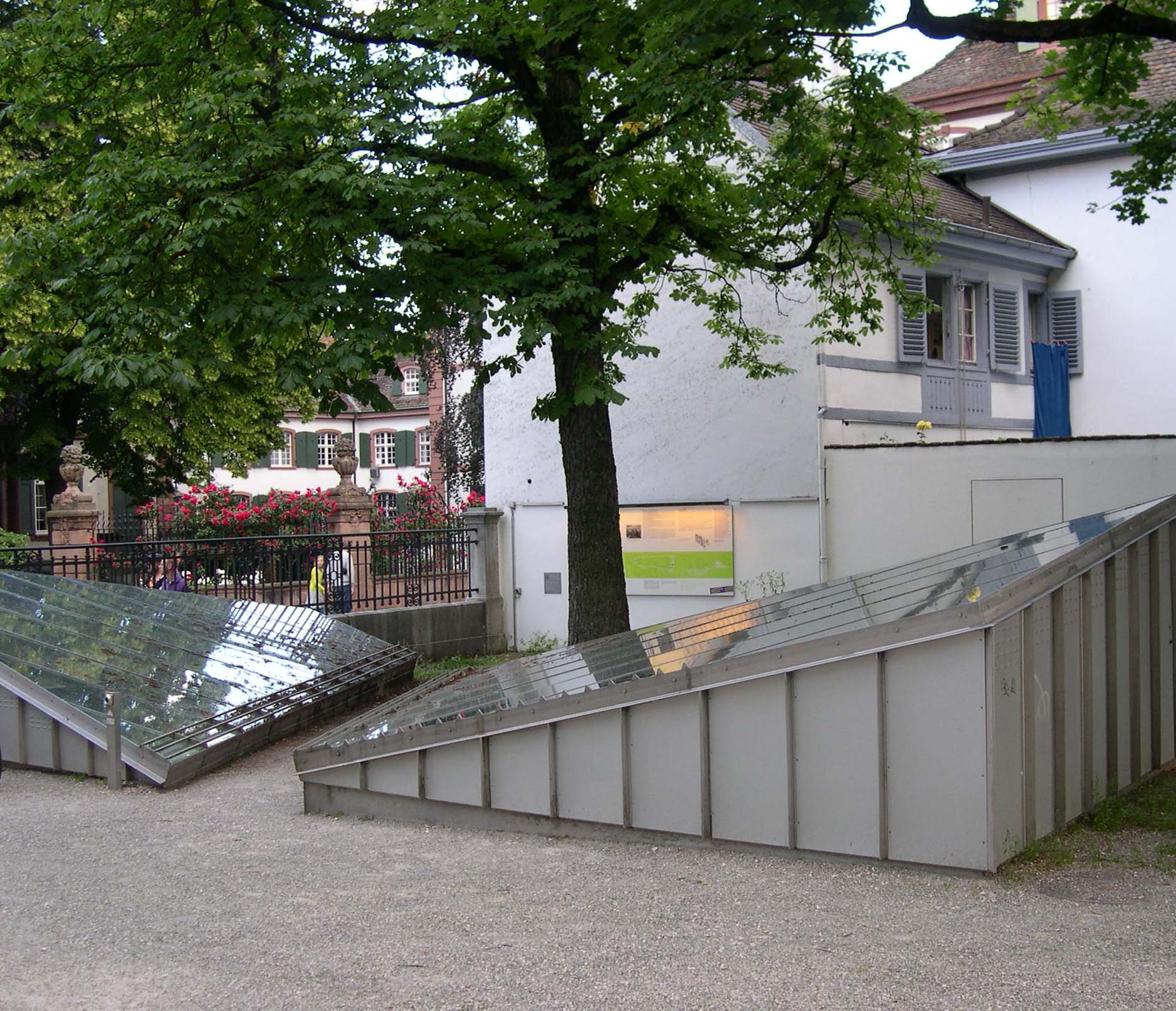 Viewing windows over the site of a Gallic wall, on Rittergasse Street, 60 meters from the Basel Cathedral. Through the windows can be seen the excavated fortification walls of the Celtic city from the 1st century BC.